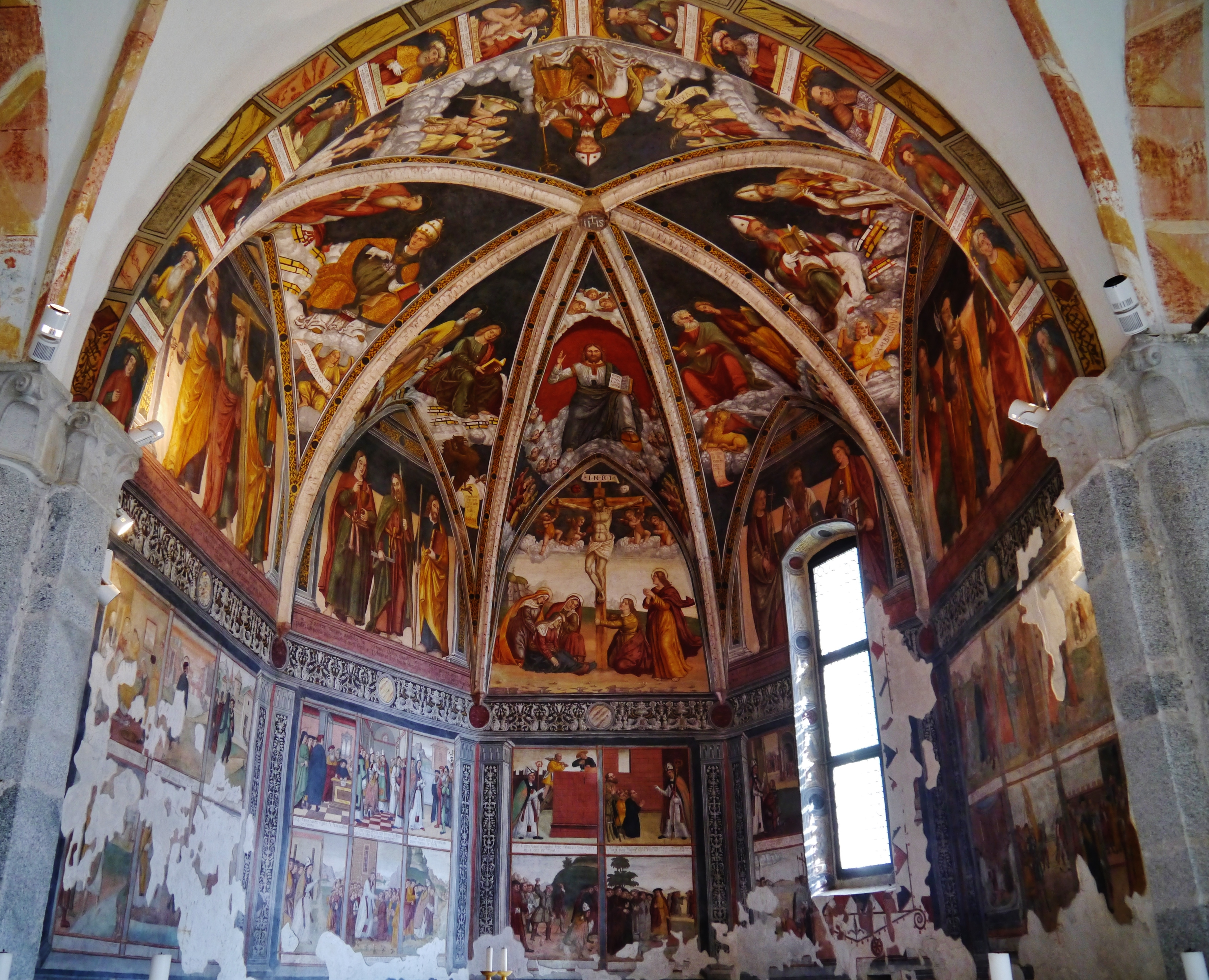 Choir of the Church of San Vigilio, Pinzolo, Province of Trent (Trentino), Region of Trentino-Alto Adige/Südtirol, Italy